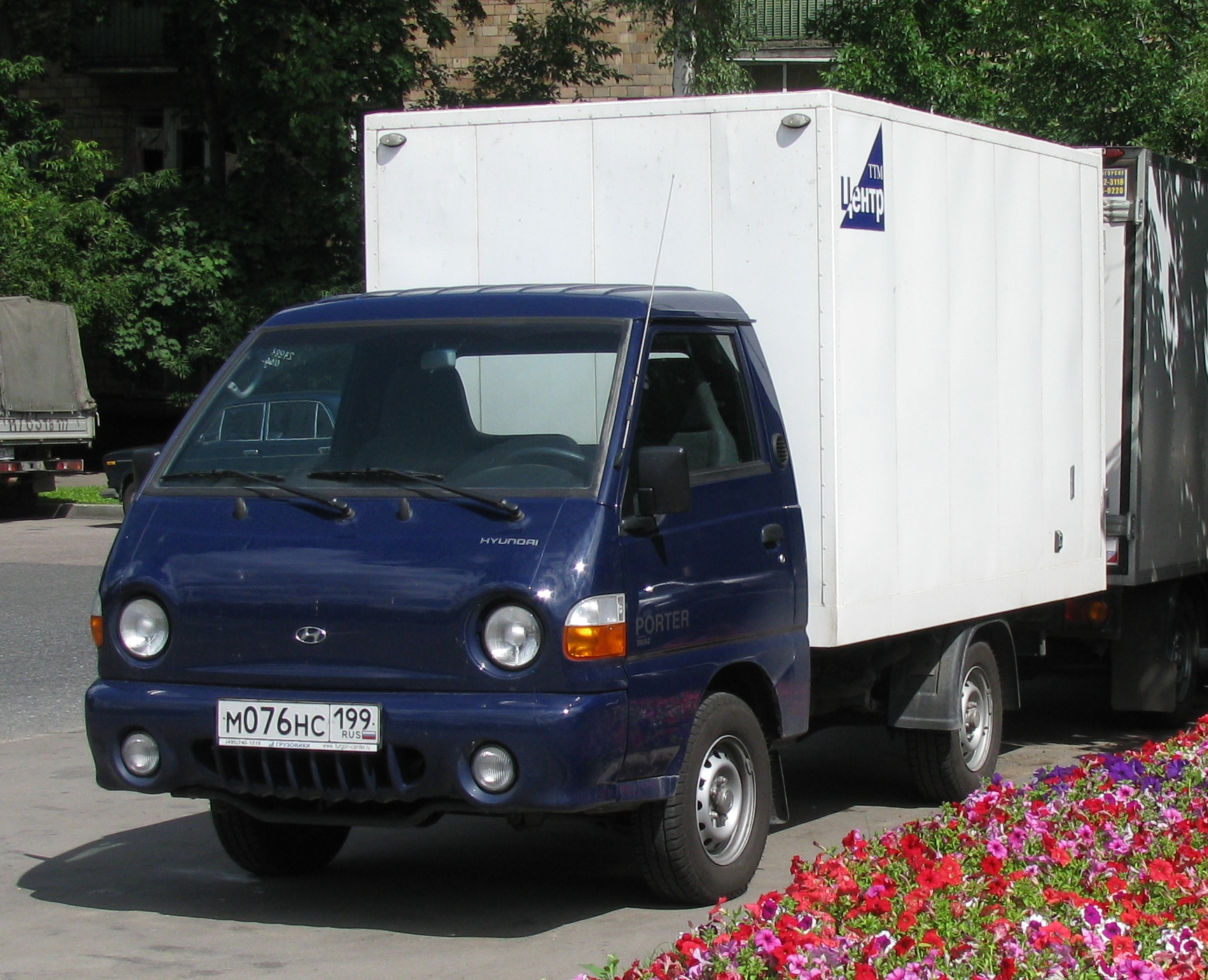 Hyundai Porter in Moscow